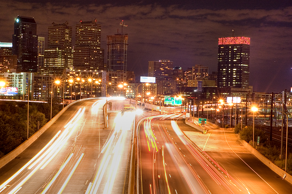 This is my own work, Public Domain Photograph, not copyrighted Ed Yakovich